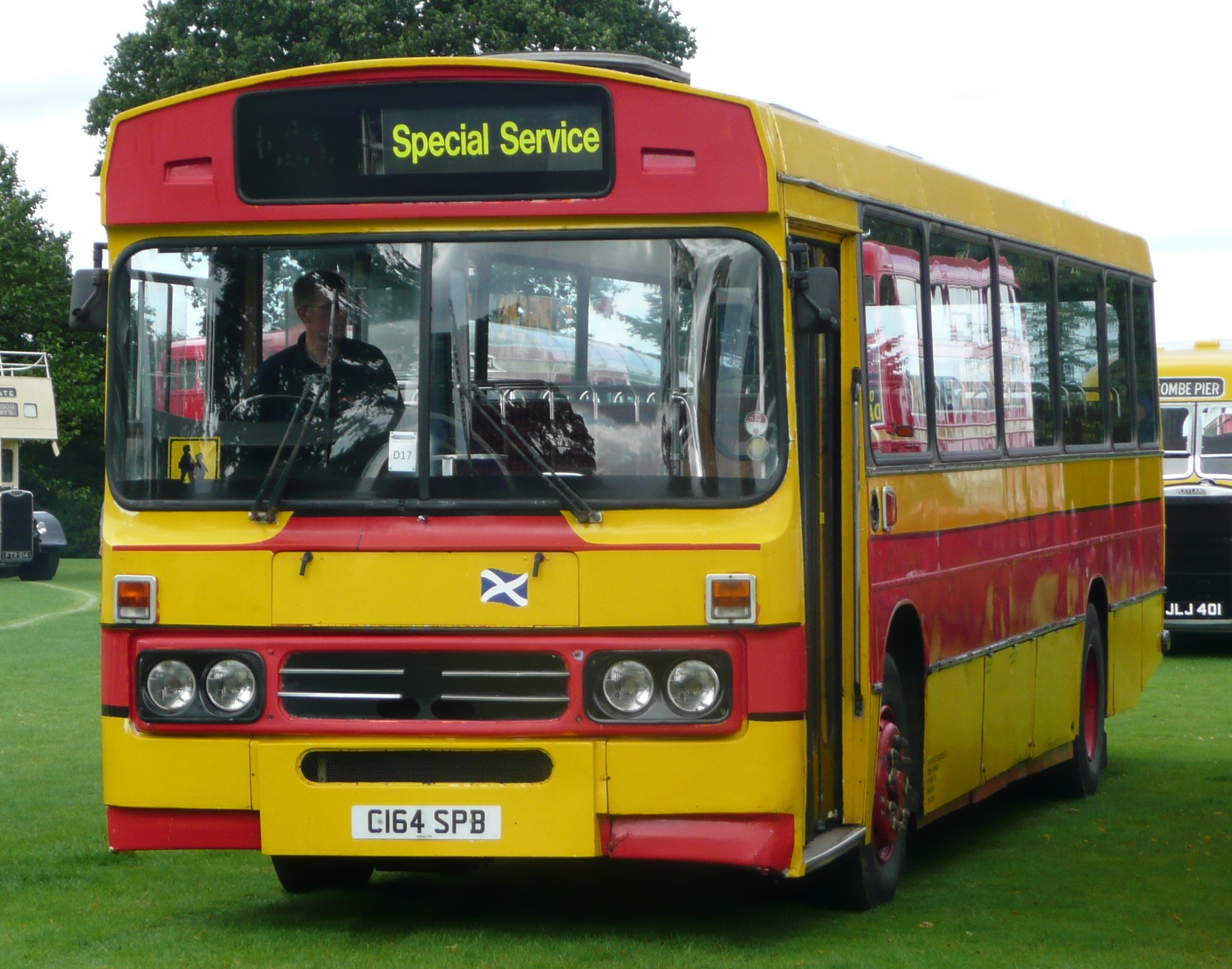 Preserved Safeguard Coaches C164 SPB, a Leyland Tiger/Duple, at the 2008 Alton bus rally at Anstey Park. It is still in the livery of previous operator Silver Fox of Renfrew, and it is planned to restore the vehicle to the original condition.